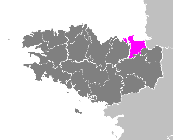 Maps of arrondissements and cantons of France: Arrondissement de Saint-Malo.PNG